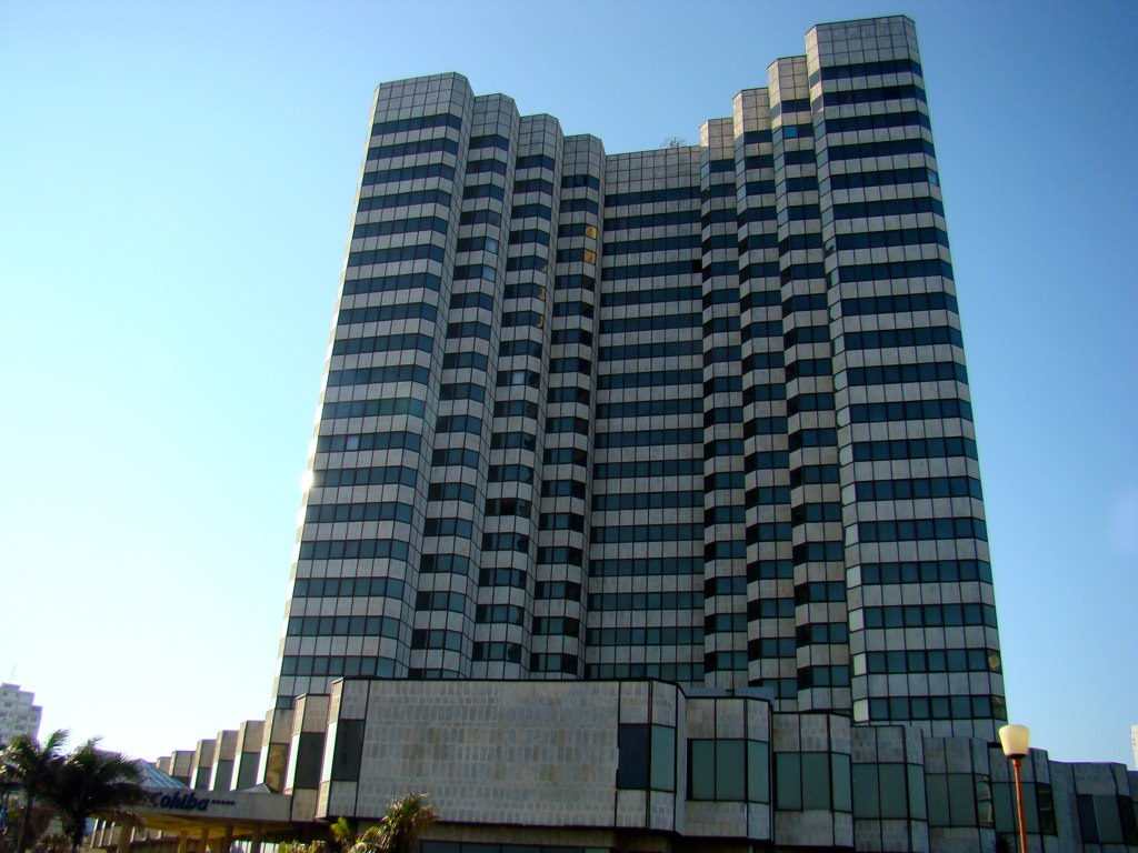 Melia Cohiba Hotel, El Vedado